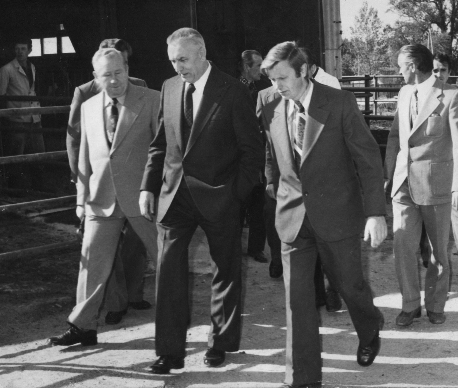 Edward Gierek visiting PGR in Rząśnik, Poland. On his left: director of PGR.